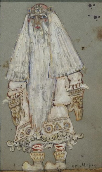 Work by Nicholas Roerich